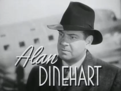 Alan Dinehart in The First Hundred Years, film by Richard Thorpe (1938)